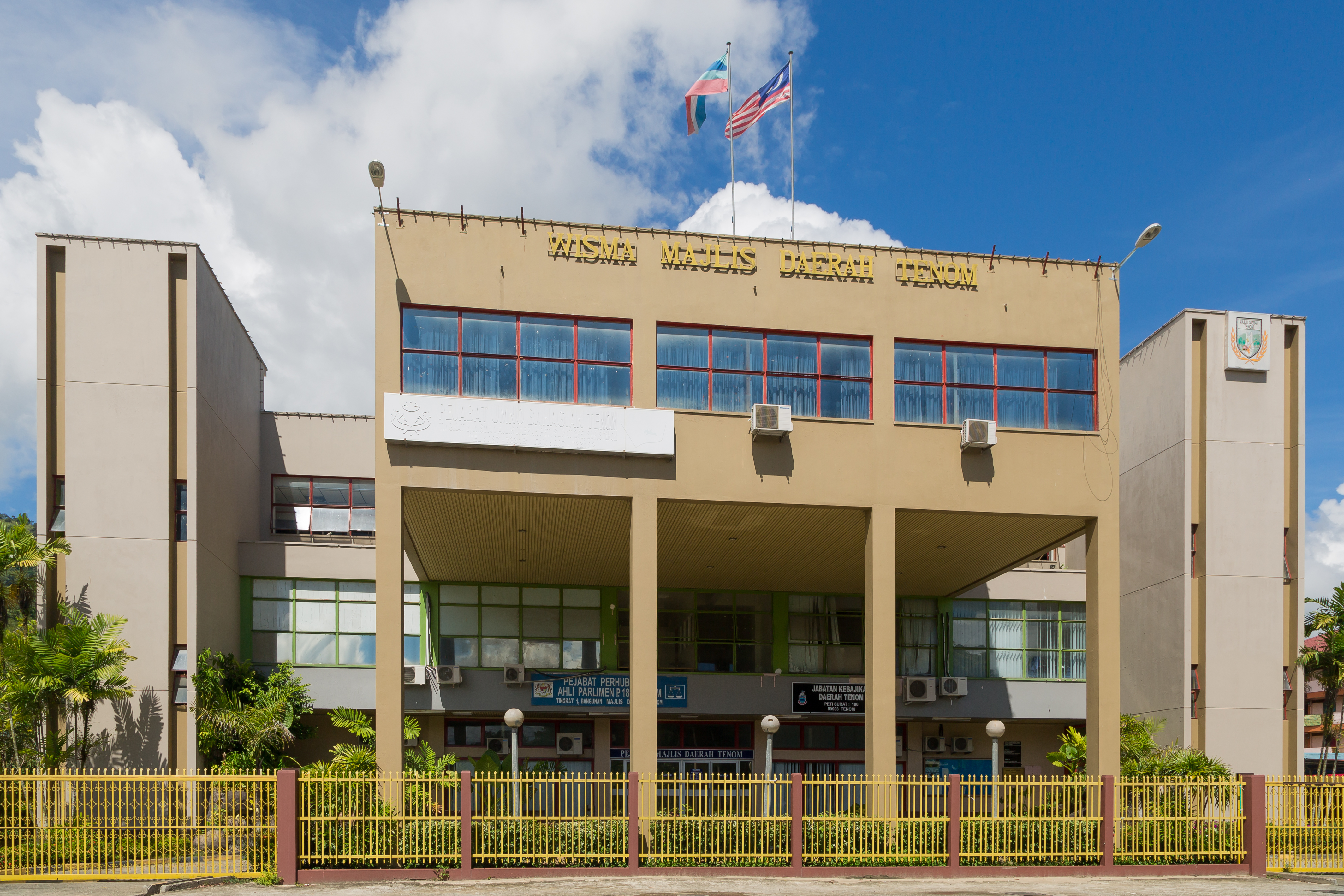 Tenom, Sabah, Malaysia: District Council (Majlis Daerah Tenom)